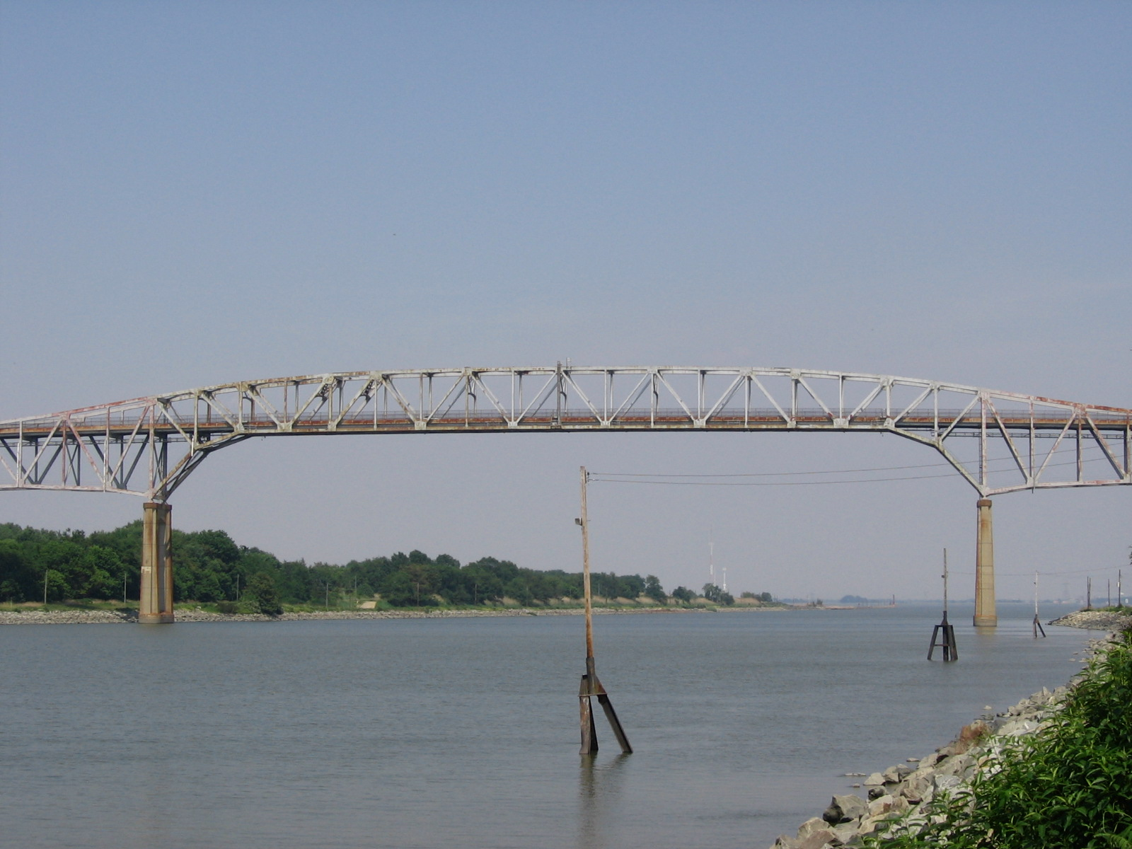 Reedy Point Bridge (Delaware Route 9) from S. Reedy Point Rd.